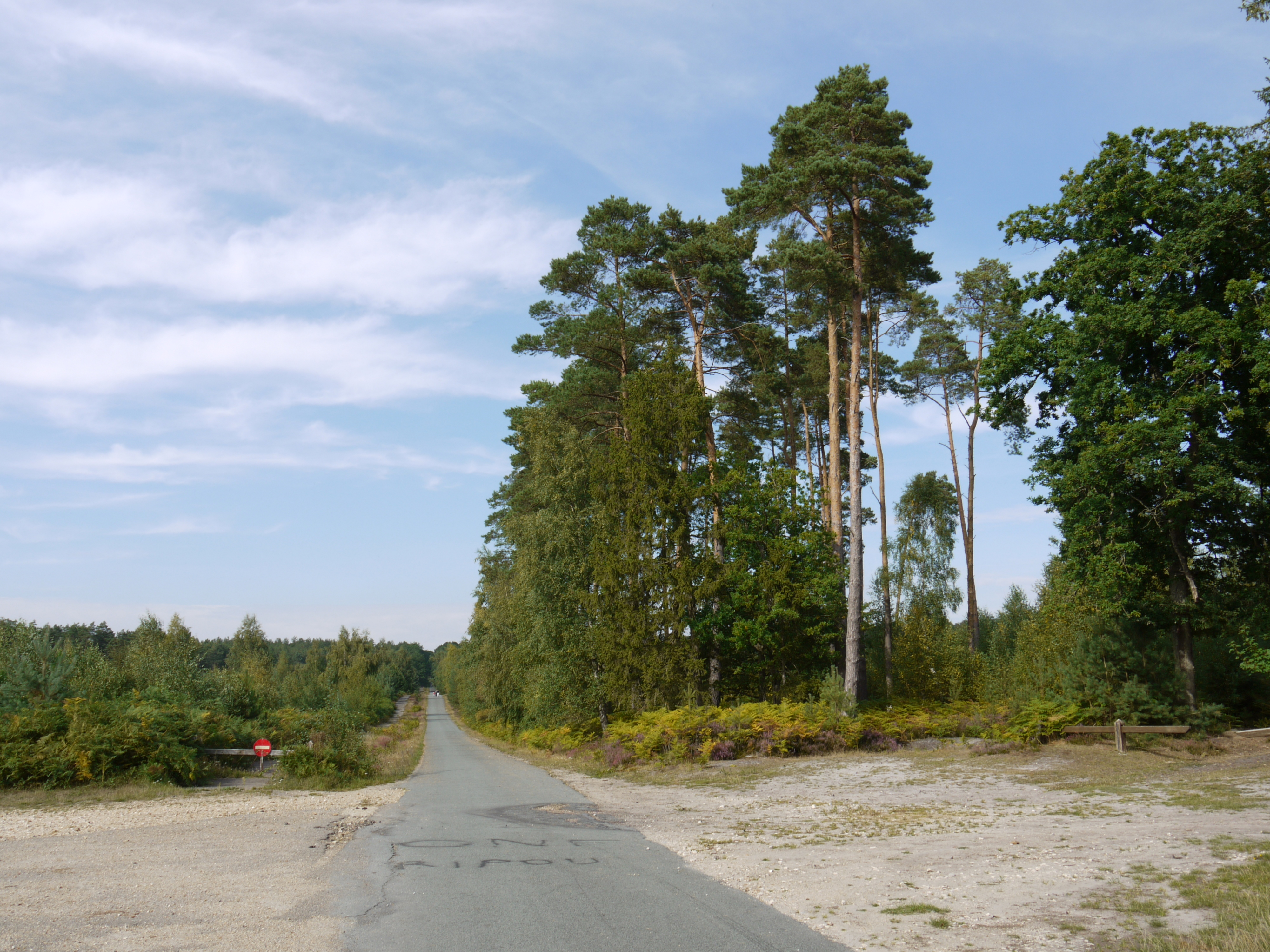 Foret de Rambouillet, Paris